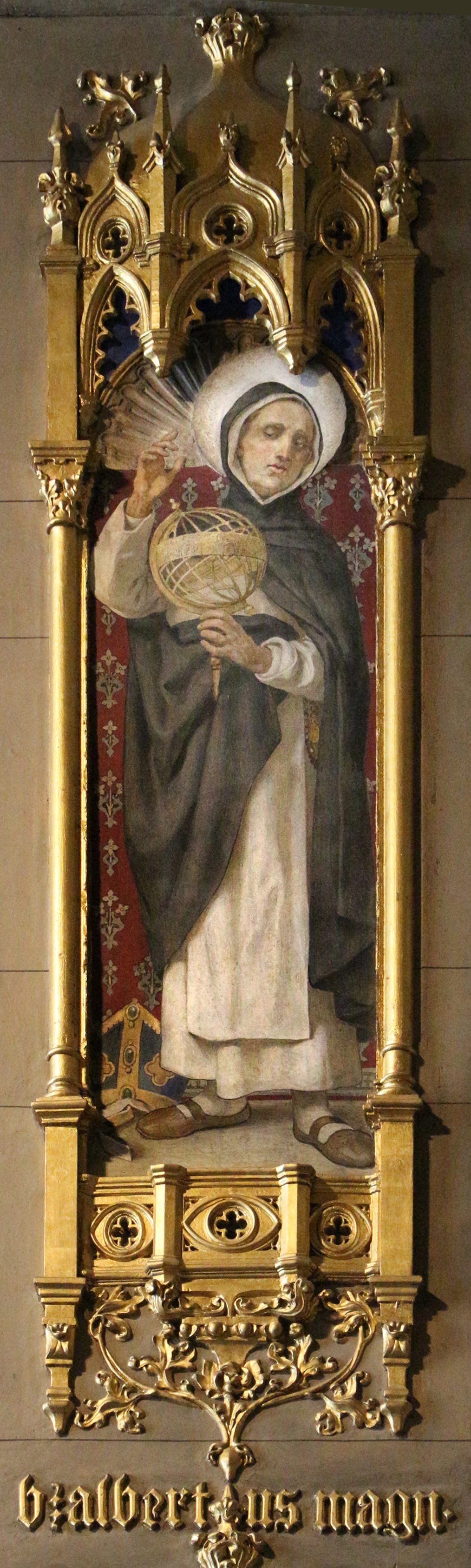 Santuario della Santa Casa (Loreto) - Frescos by Ludovico Seitz